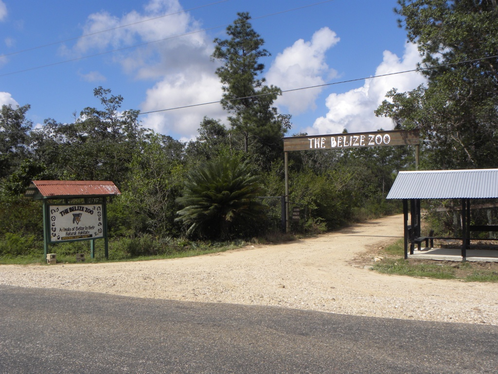 Entrance to the Belize Zoo at Mile 29, George Price Highway, Belize District